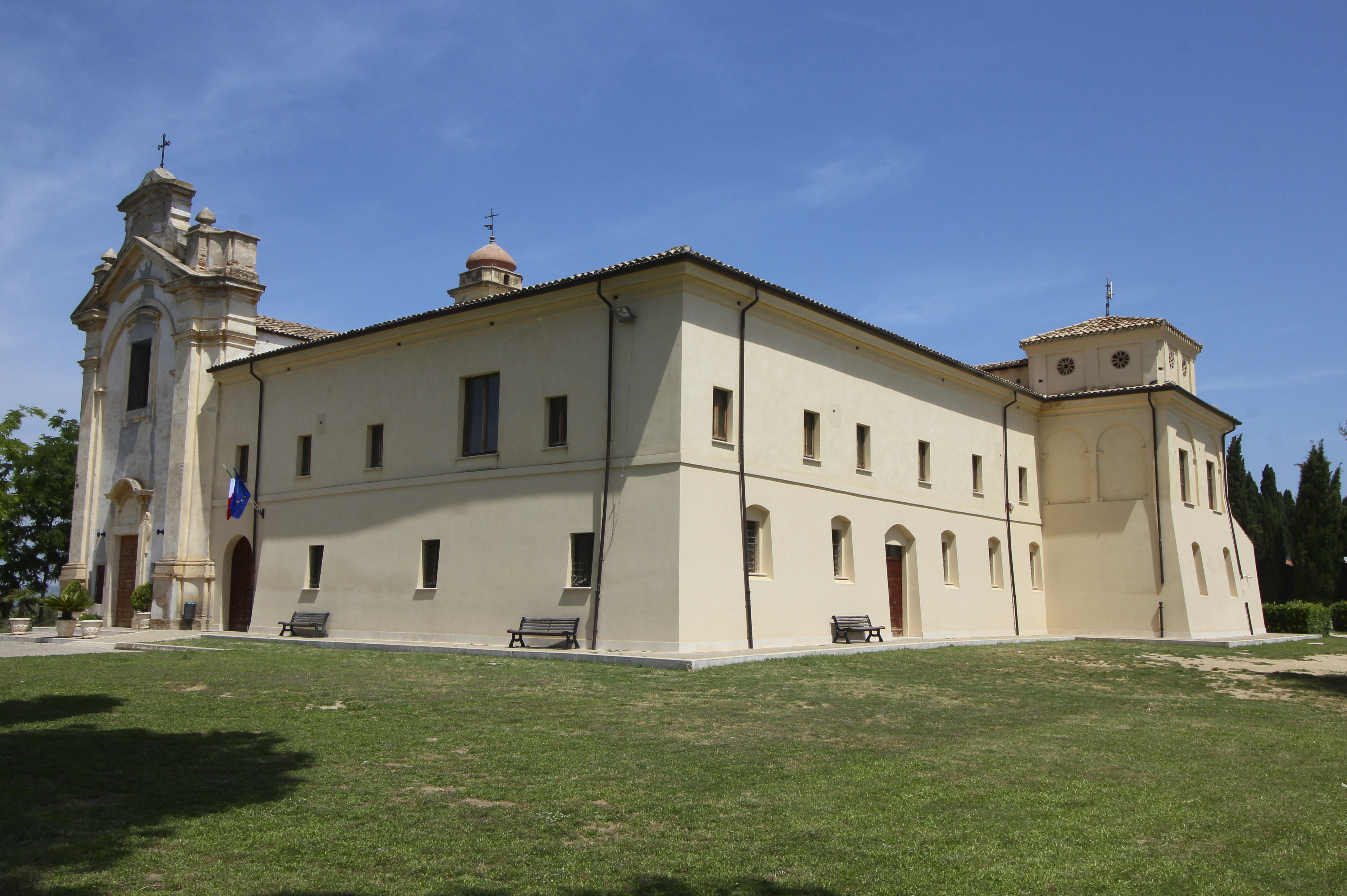 Convent Convento di San Patrignano with the church Sant' Antonio (Sant'Antonio da Padova and Sant'Antonio Abate), Collecorvino, Province of Pescara, Abruzzo, Italy